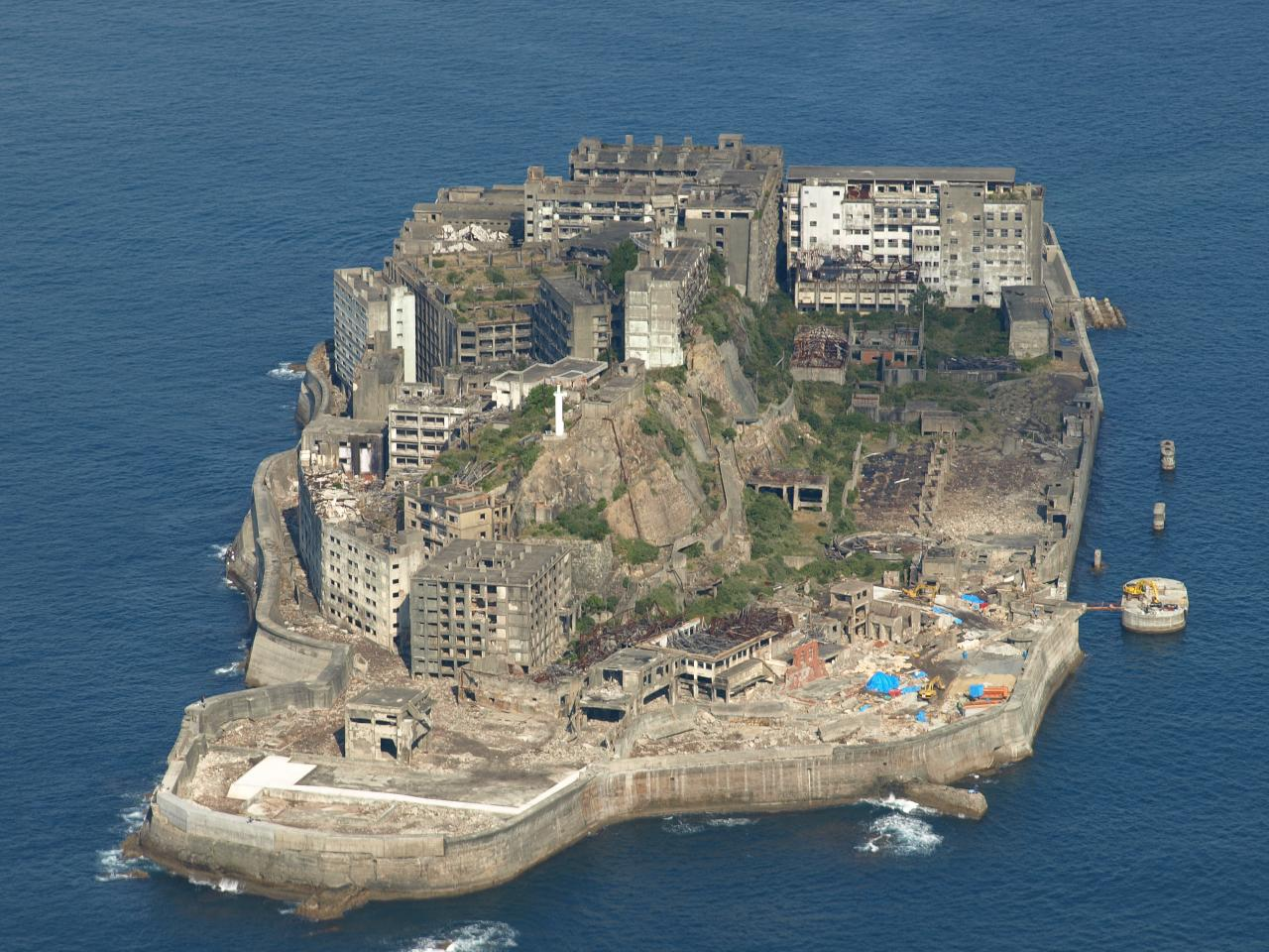 The many coal mine people had lived. It is an uninhabited island now.